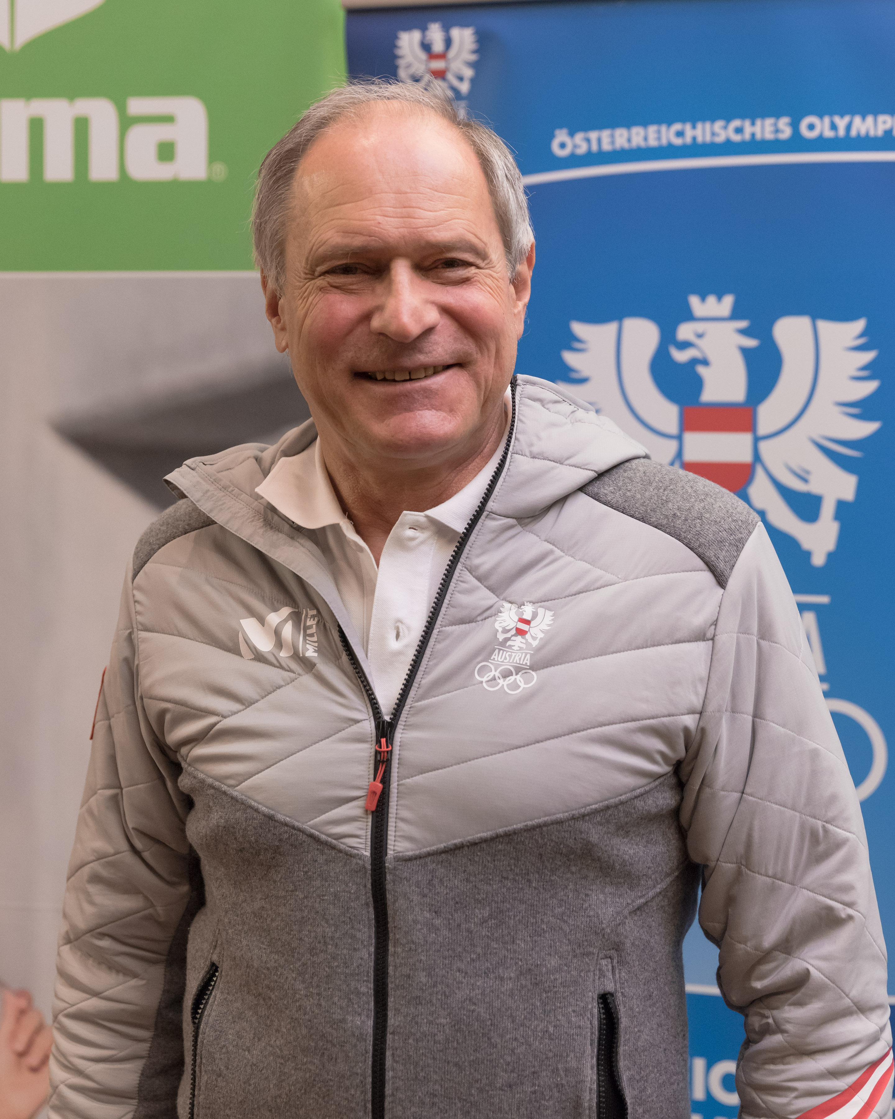 Peter Mennel at the outfitting of the Austrian team for the 2018 Winter Olympics (Hotel Marriott in Vienna, Austria.